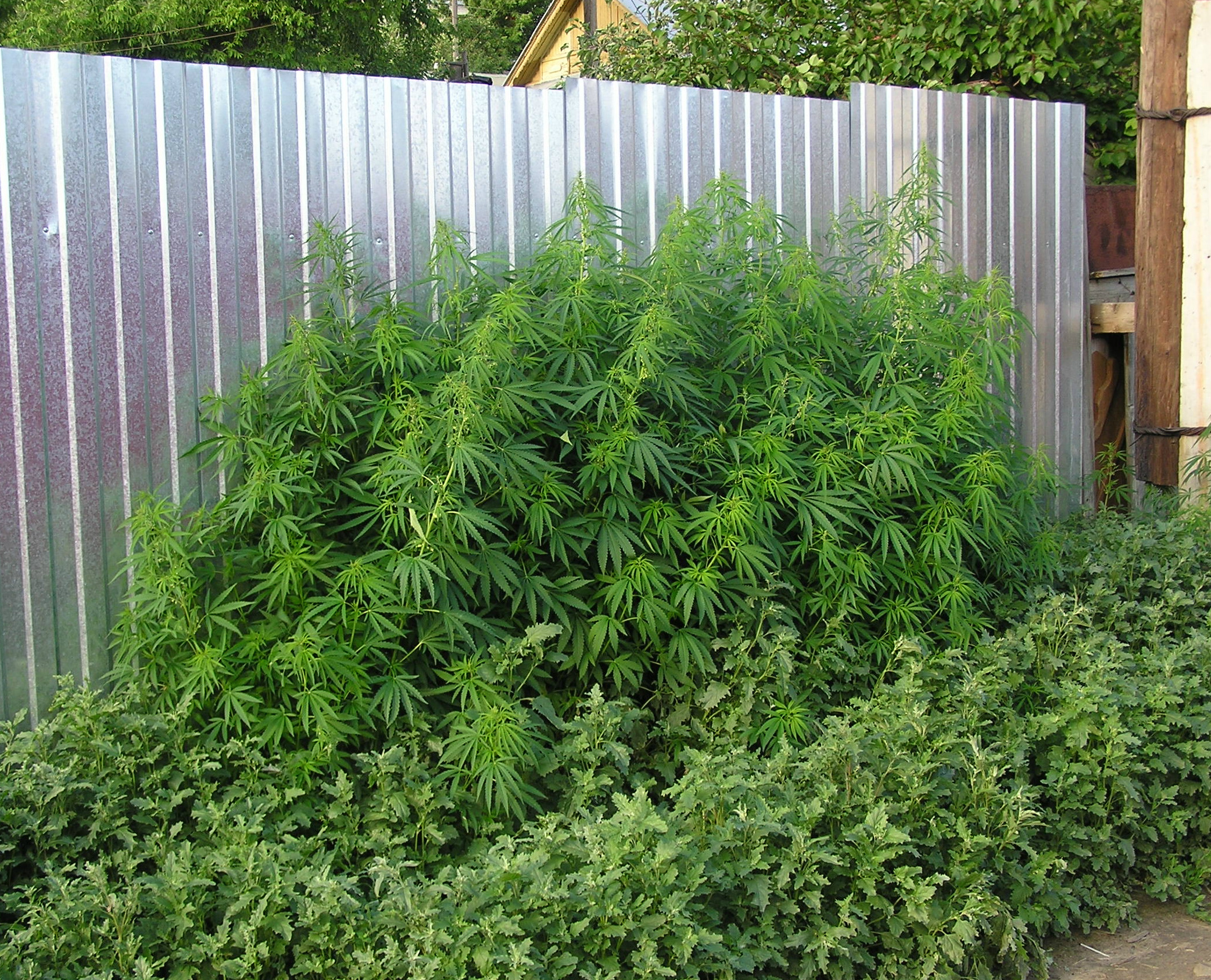 Maturing wild marijuana plants (Cannabis sativa var. ruderalis Janisch.; syn.: Cannabis ruderalis Janisch.) and Atriplex tatarica (L.) on a private driveway in Saratov city, Russia.